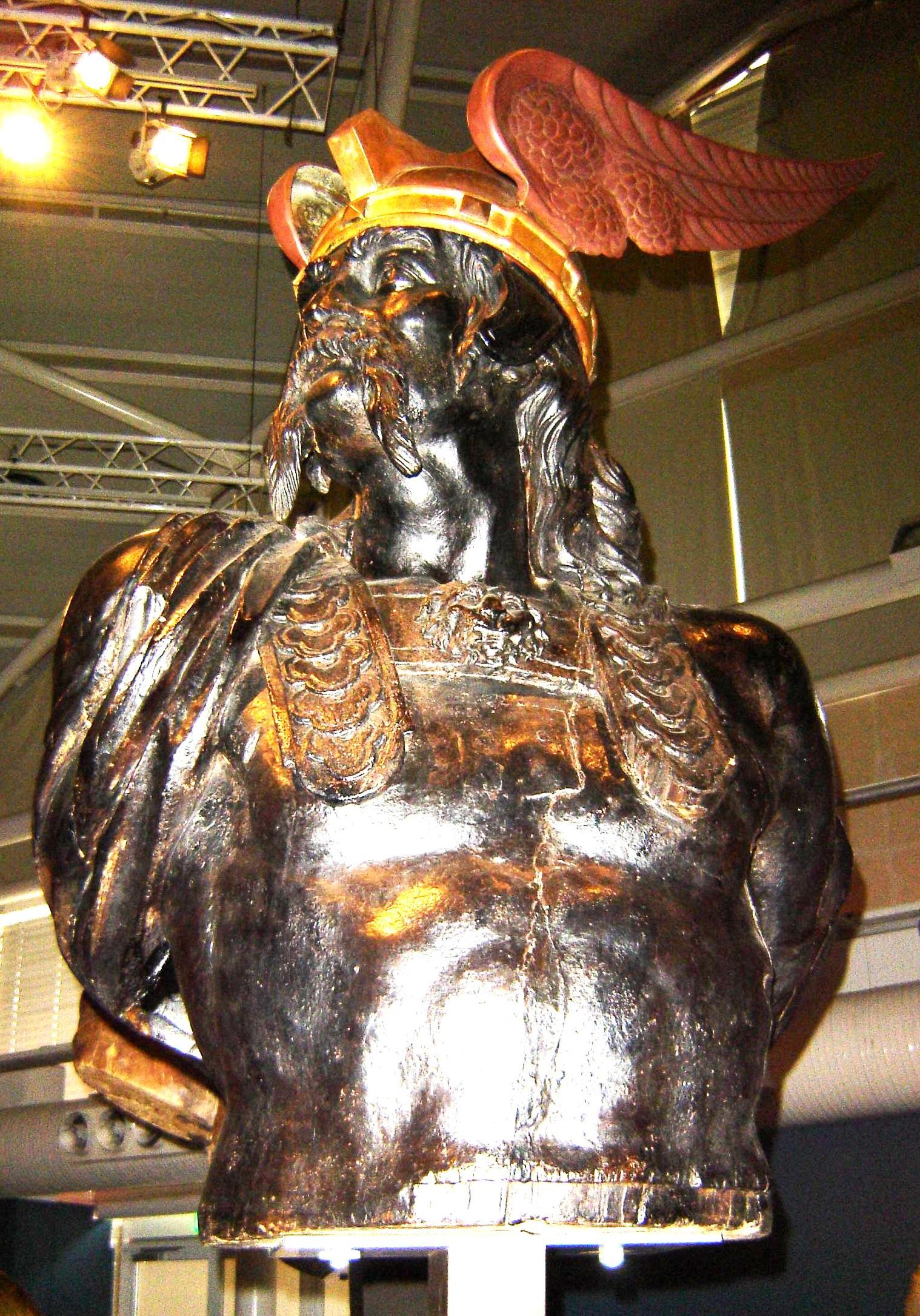 existing file Brennussculpture by Filipo improved using MsOff Picture Manager